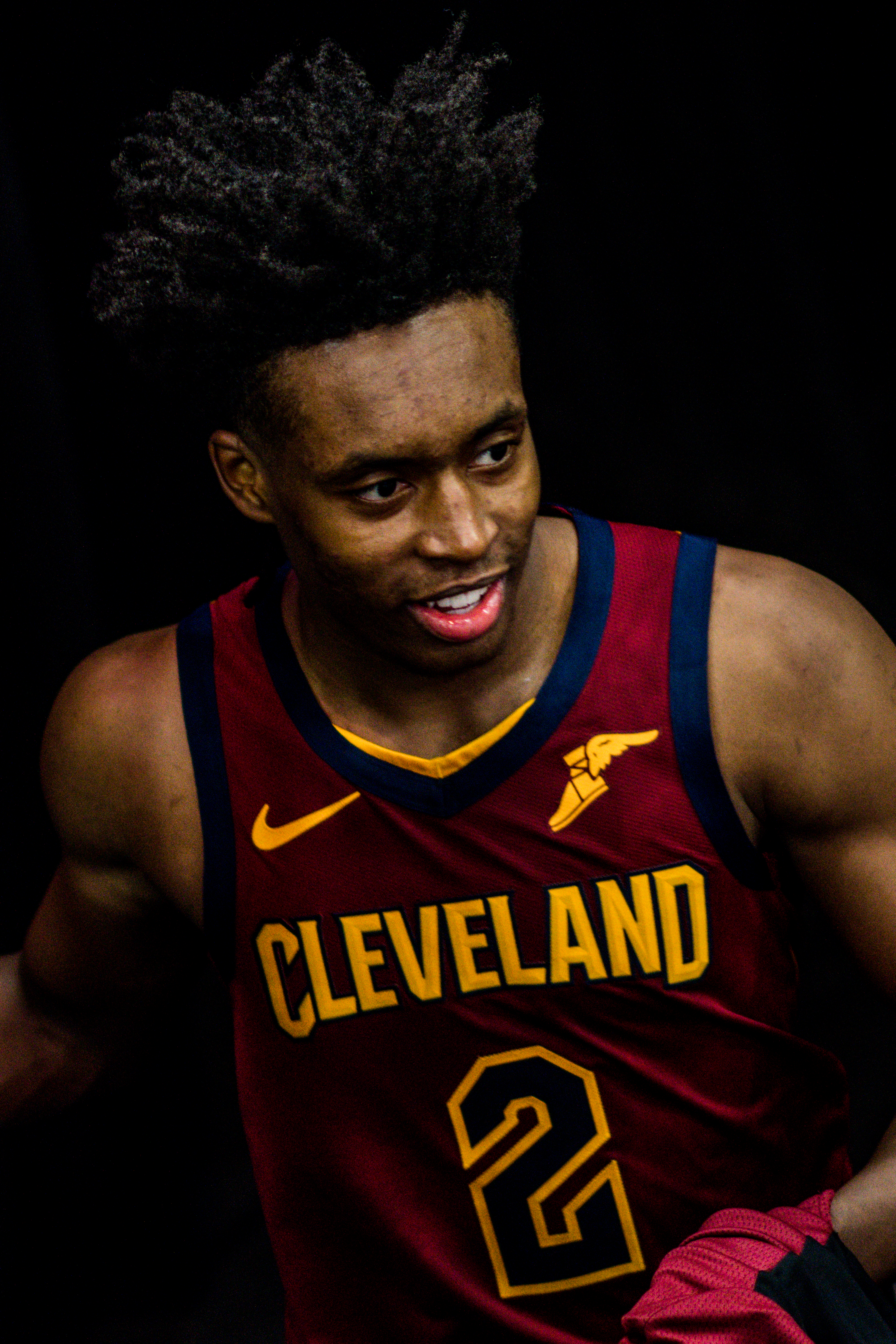 Collin Sexton